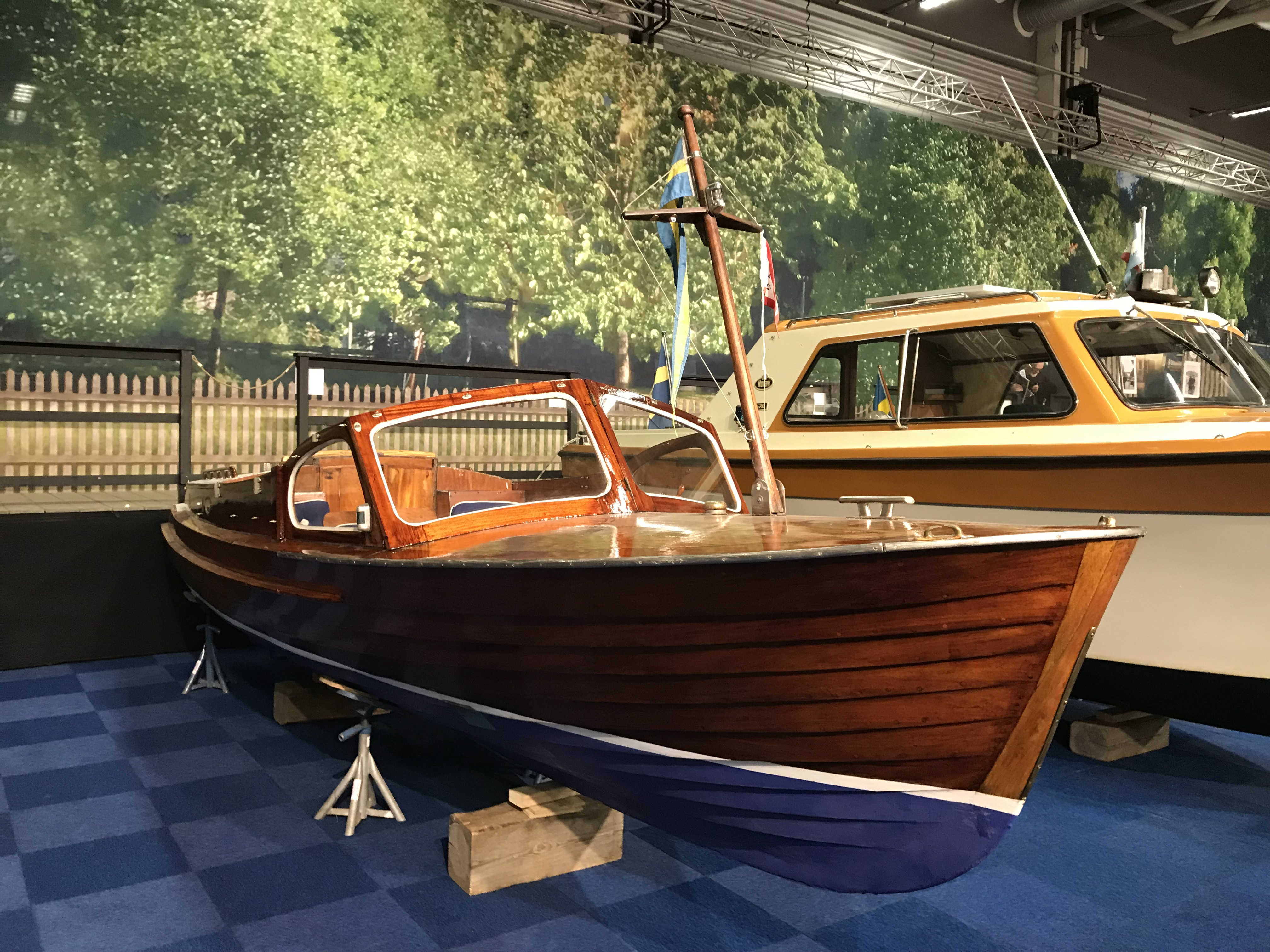 Camping boat M/Y Drott, 1954, at the stand of Heleneborg boat club during the annual boat fair Allt för sjön in Älvsjö, Sweden, March 1-10, 2019. M/Y Drott was constructed by Gunnar Skålen and built by Skålens Båtbyggeri AB in Säffle. Length 6,90 m, width 1,80 m. The boat behind M/Y Drott is a Monark 670 from 1979, constructed by Pelle Petterson.